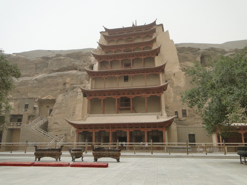 Dunhuang grottoes (Mogao cave)